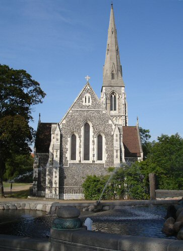 Église Saint-Alban de Copenhague. This photo shows the English Church which is very near the Palace. This palace has been the home of the Danish Royal Family since 1794. It consists of a large square with four identical 18th century palaces that are characterized by fanciful, curved spatial forms and elaborate ornamentation. A ceremonial changing of the guard takes place in the square each day at noon. Only one of the palaces, which contains royal memorabilia can be viewed by the public. See set comments for “Copenhagen Denmark Overview”.